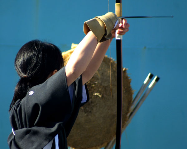 A Kyudoka (Kyudo practitioner) practicing on a Makiwara (Practice Target) a large Kyudo Taikai (competition) in the Kanto region of Japan in January of 2008.